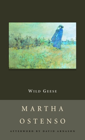 Cover painting for the novel Wild Geese